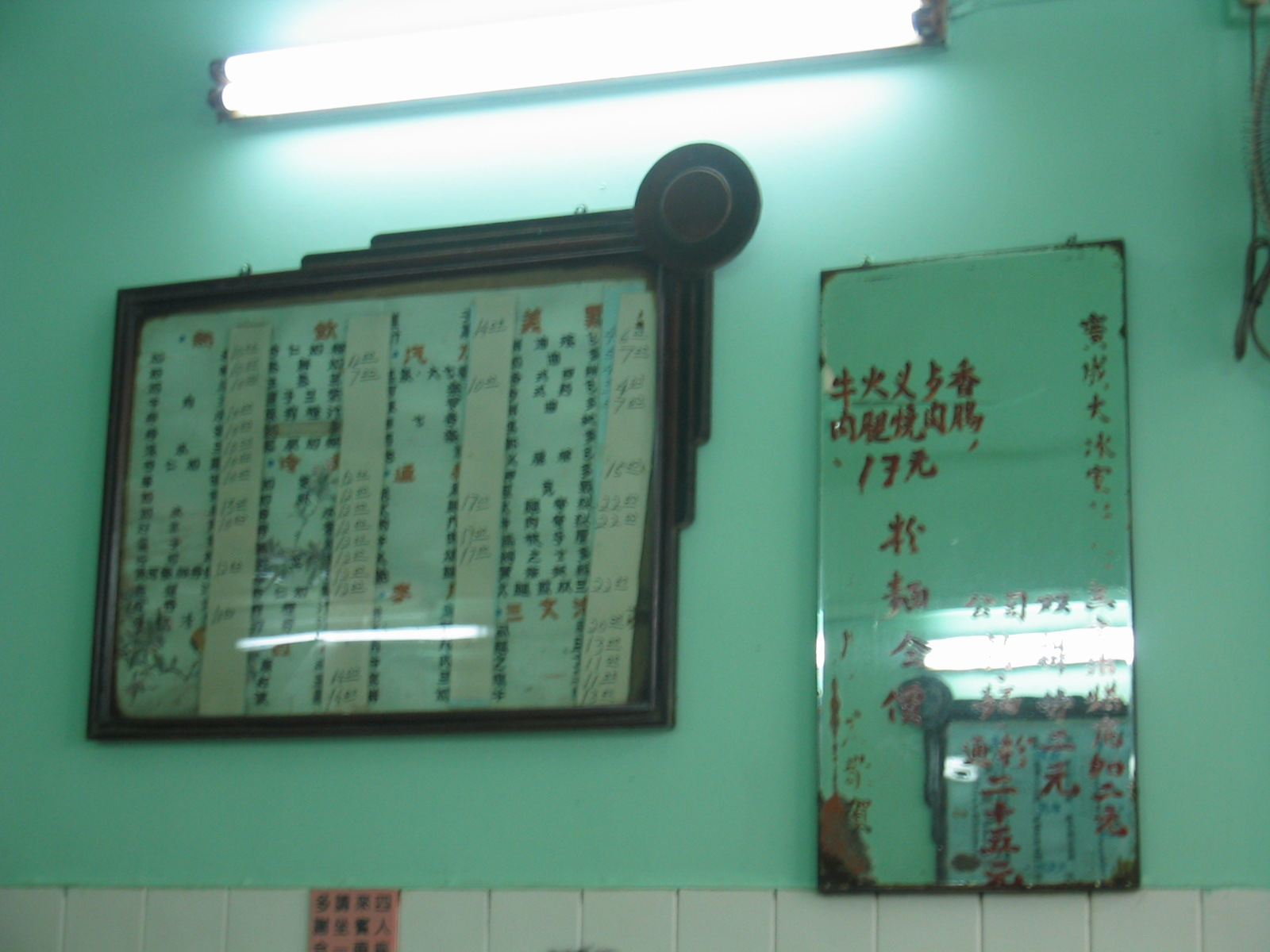 A menu on wall in an "Ice-chamber" in Sheung Shui, Hong Kong